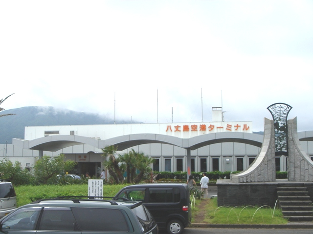 Hachijo Airport Location: Hachijojima